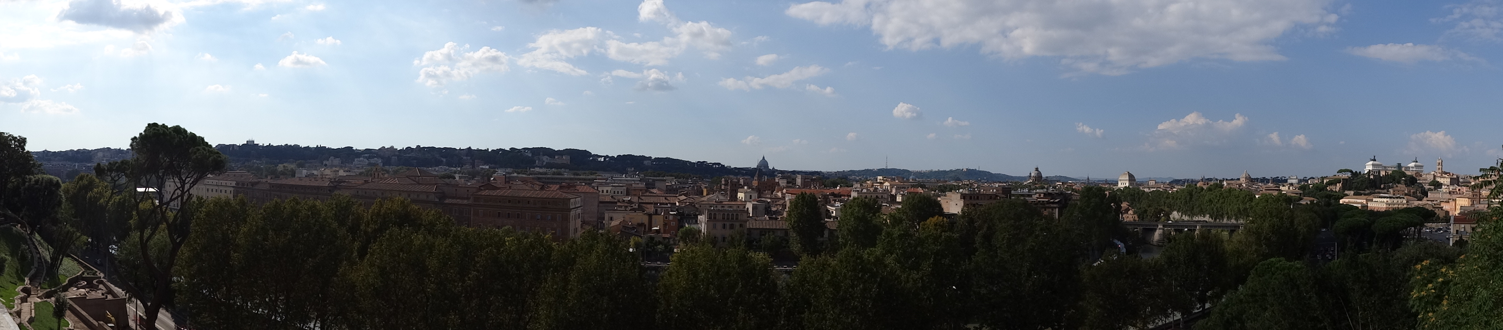 Aventine Hill panorama